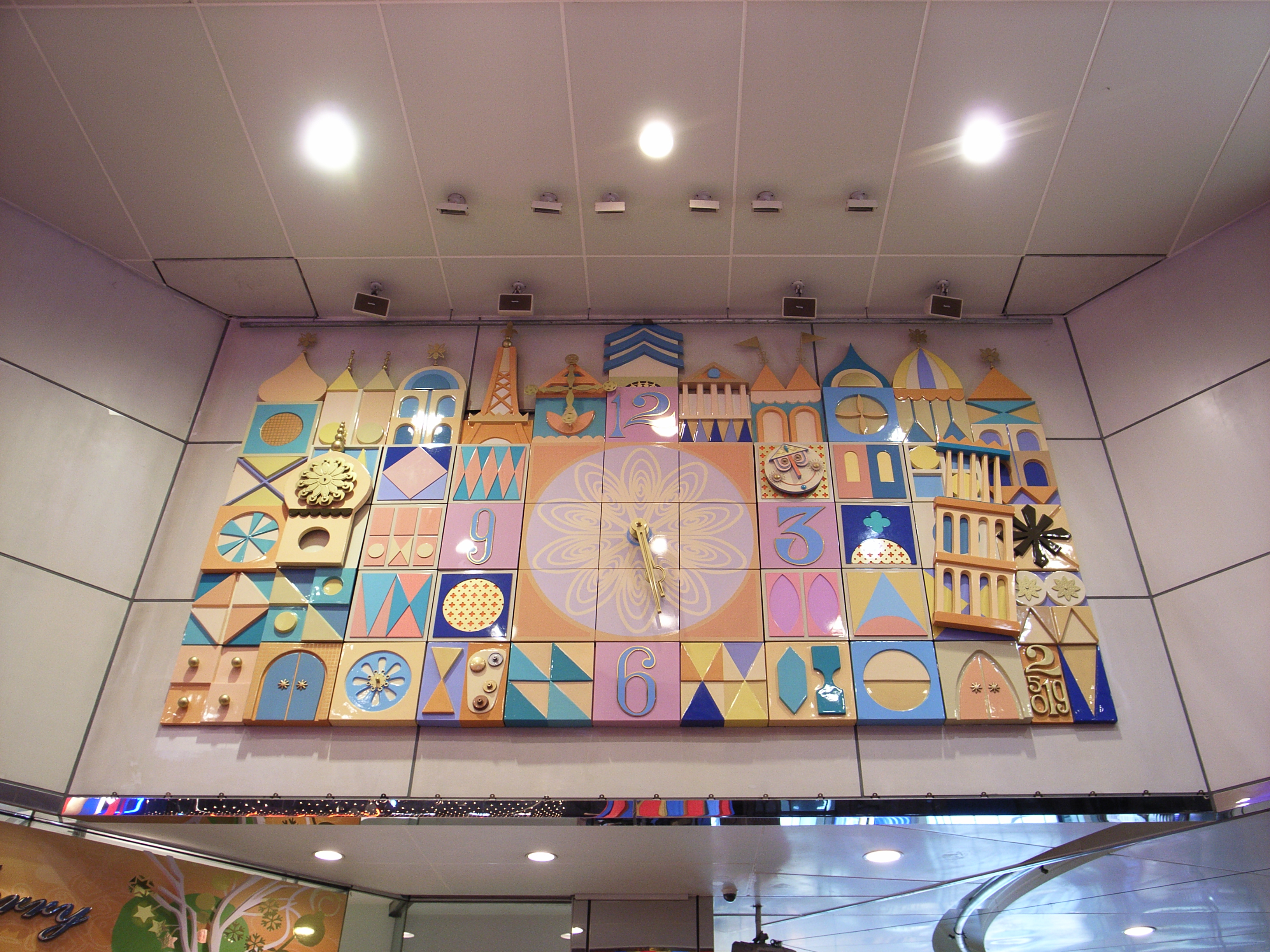 "it's a small world" clock at Sogo Taipei Chunghsiao Store. (without Hong Kong Disneyland logo)